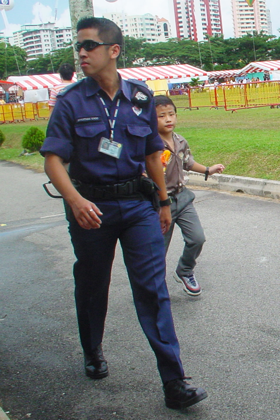 Police Coast Guard at the Police Week Carnival 2002. He wears the old PCG uniform.